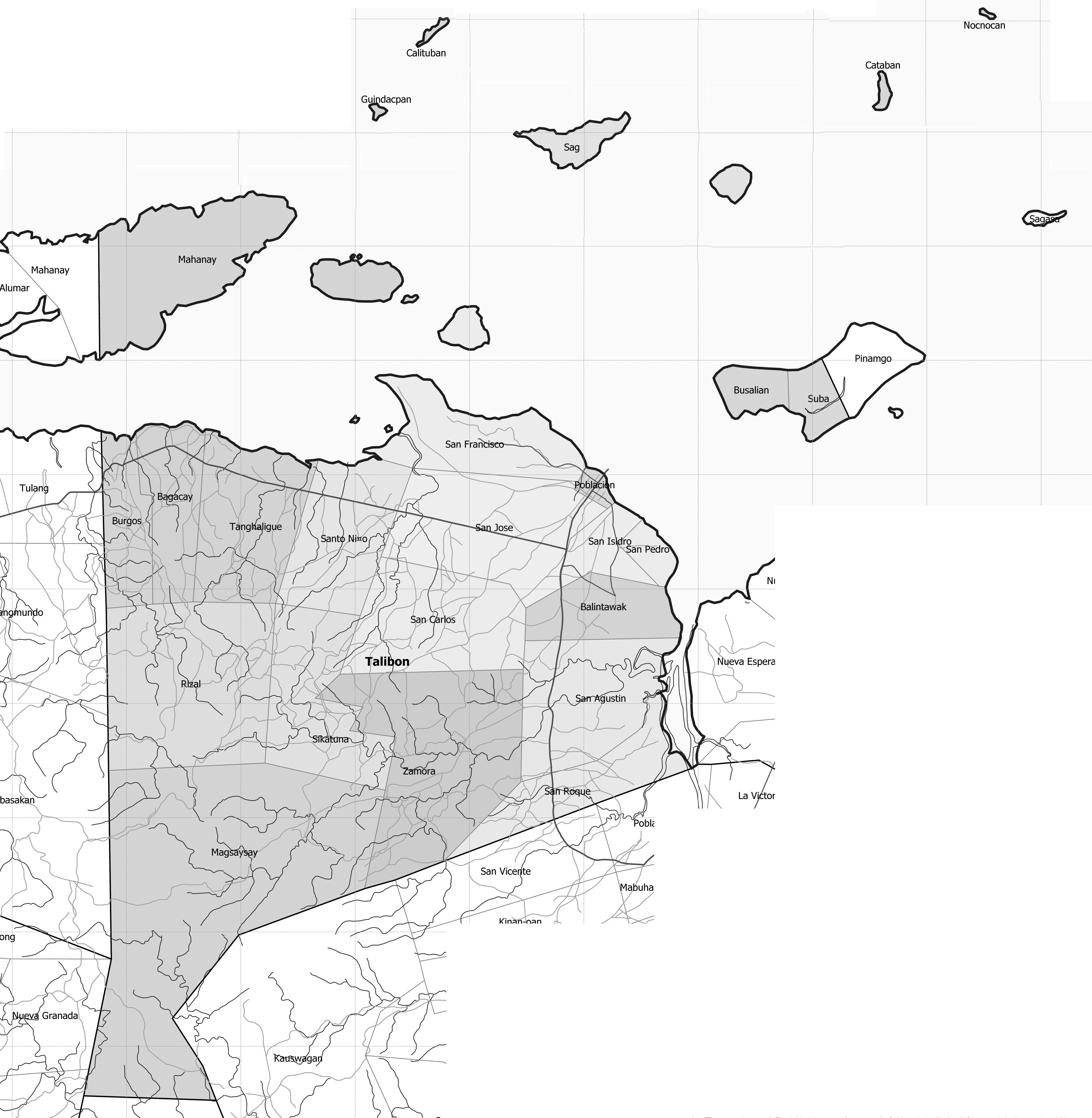 Detailed of Talibon, Bohol showing barangays and islands